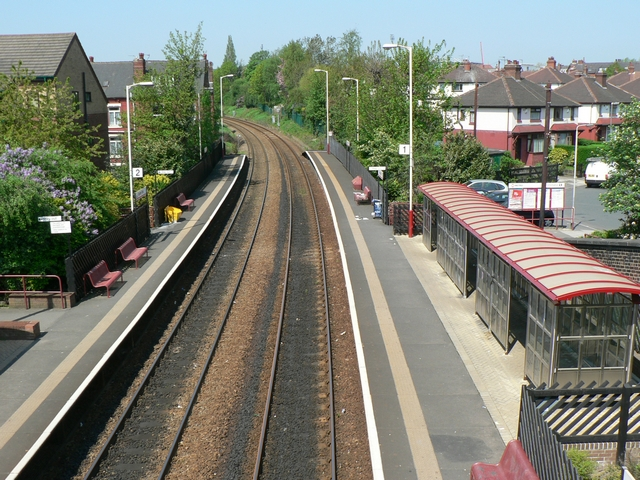 Burley Park Station, Headingley. Looking north-west from the Ashville Road bridge.